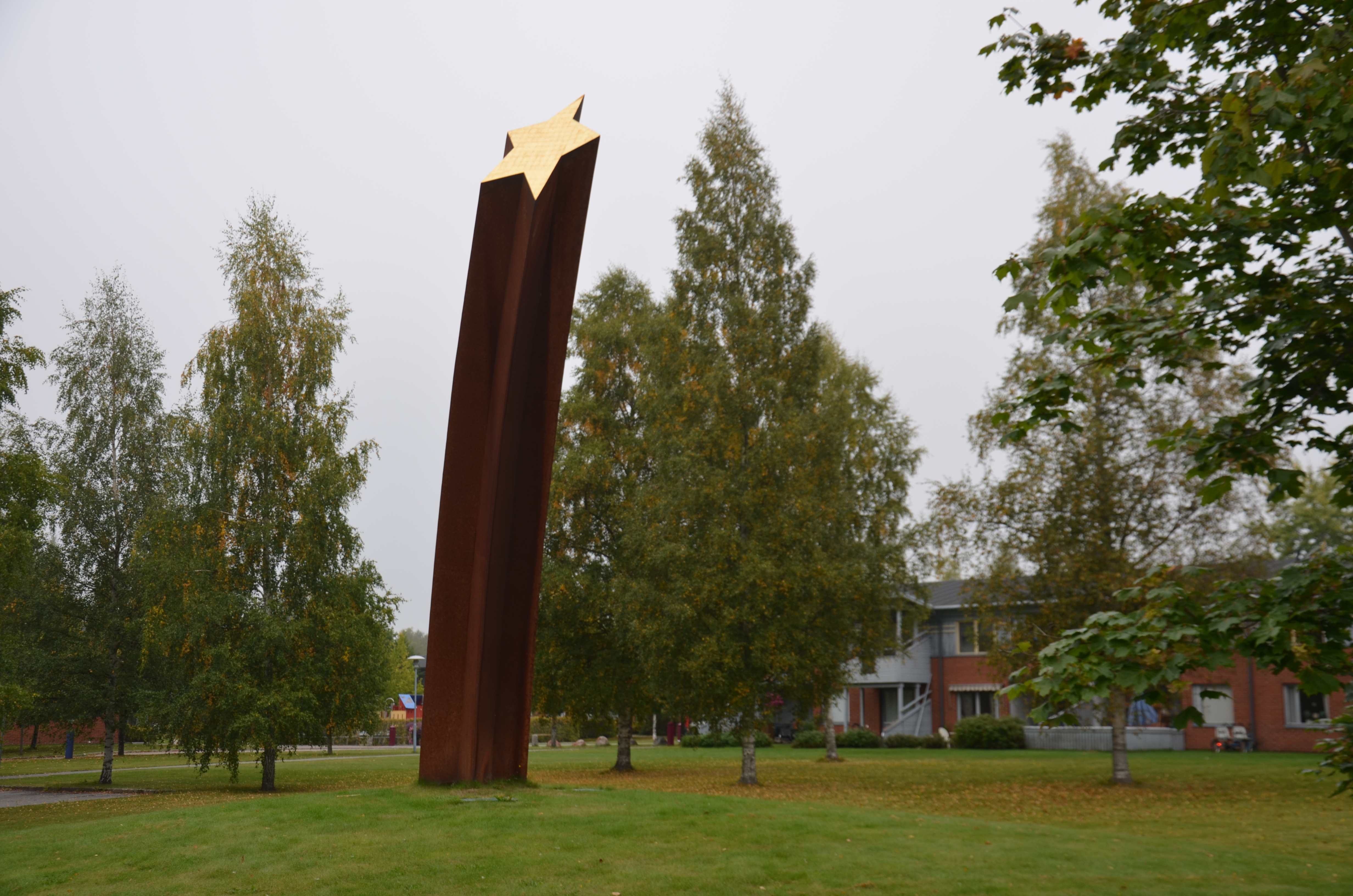 Polstjärnan av Lenny Clarhäll i Hällefors This reproduction of an architectural work or work of art, is covered under the Swedish law of copyright for literary and artistic works (Law 1960:729, paragraph 24), which states that "Work of art may be depicted if it is permanently placed on or at a public place outdoors. Buildings may be freely depicted." See Commons:Freedom of panorama#Sweden for more information.